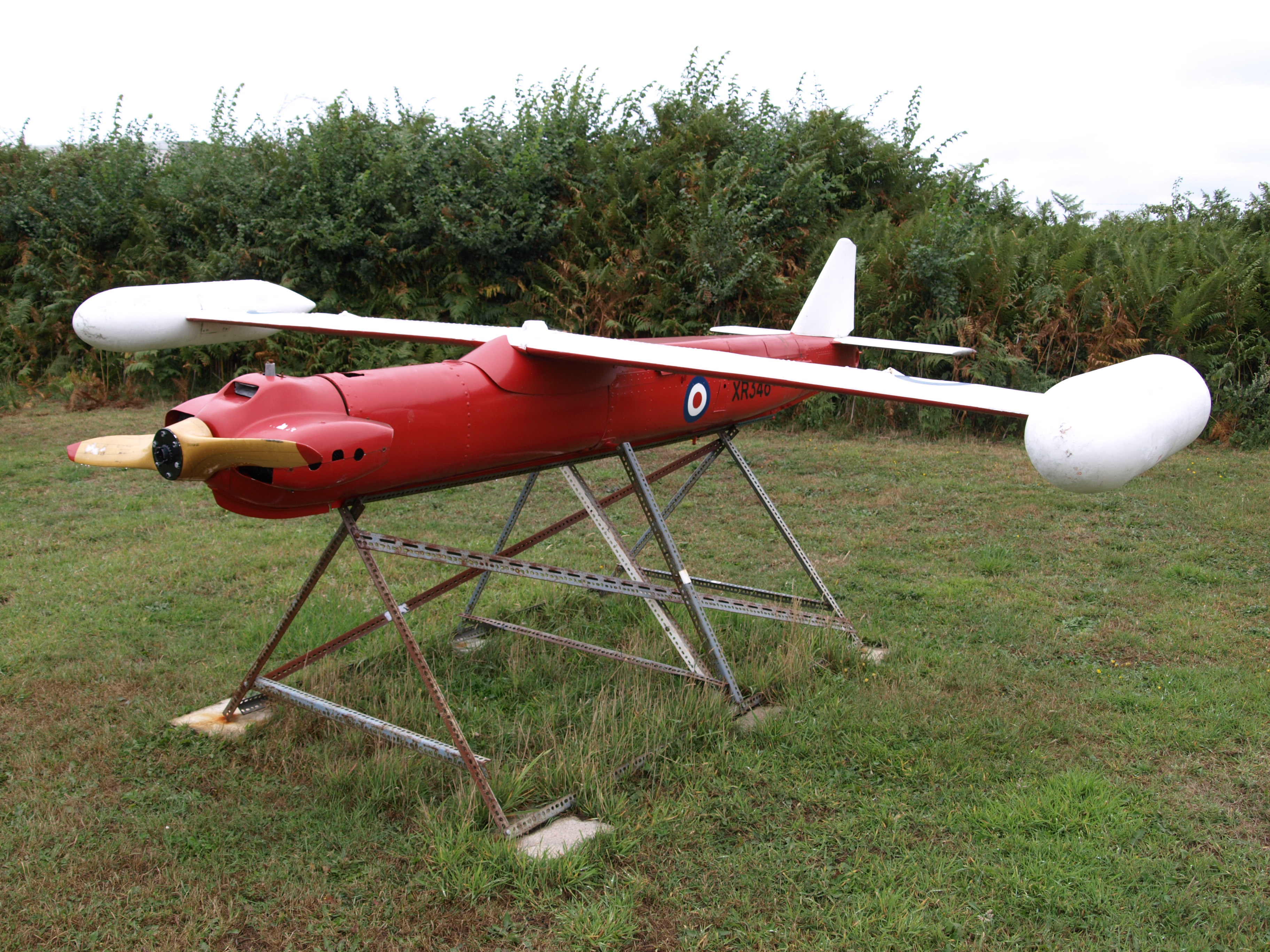 Radioplane Shelduck target drone aircraft at the Bournemouth Aviation Museum.